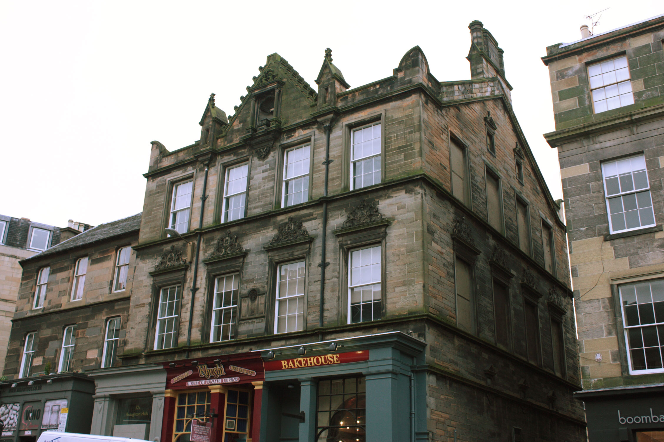 One of the Edinburgh Heriot Trust schools. Ten existed. This one is on the west side of Broughton Street. Ground floor remodelled as shops.